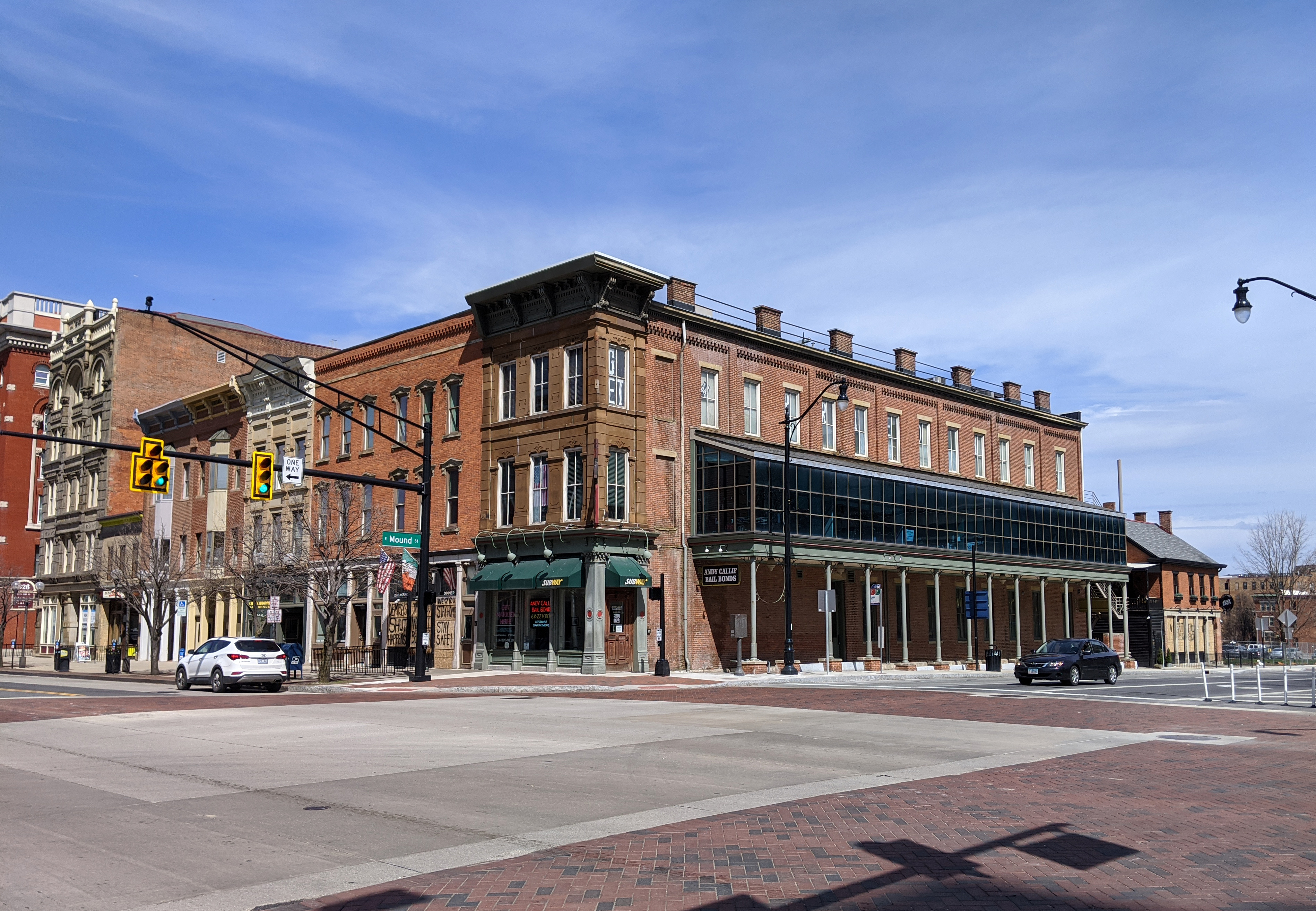 Historic buildings in Columbus, Ohio. At 39°57'18.2"N 82°59'56.4"W.